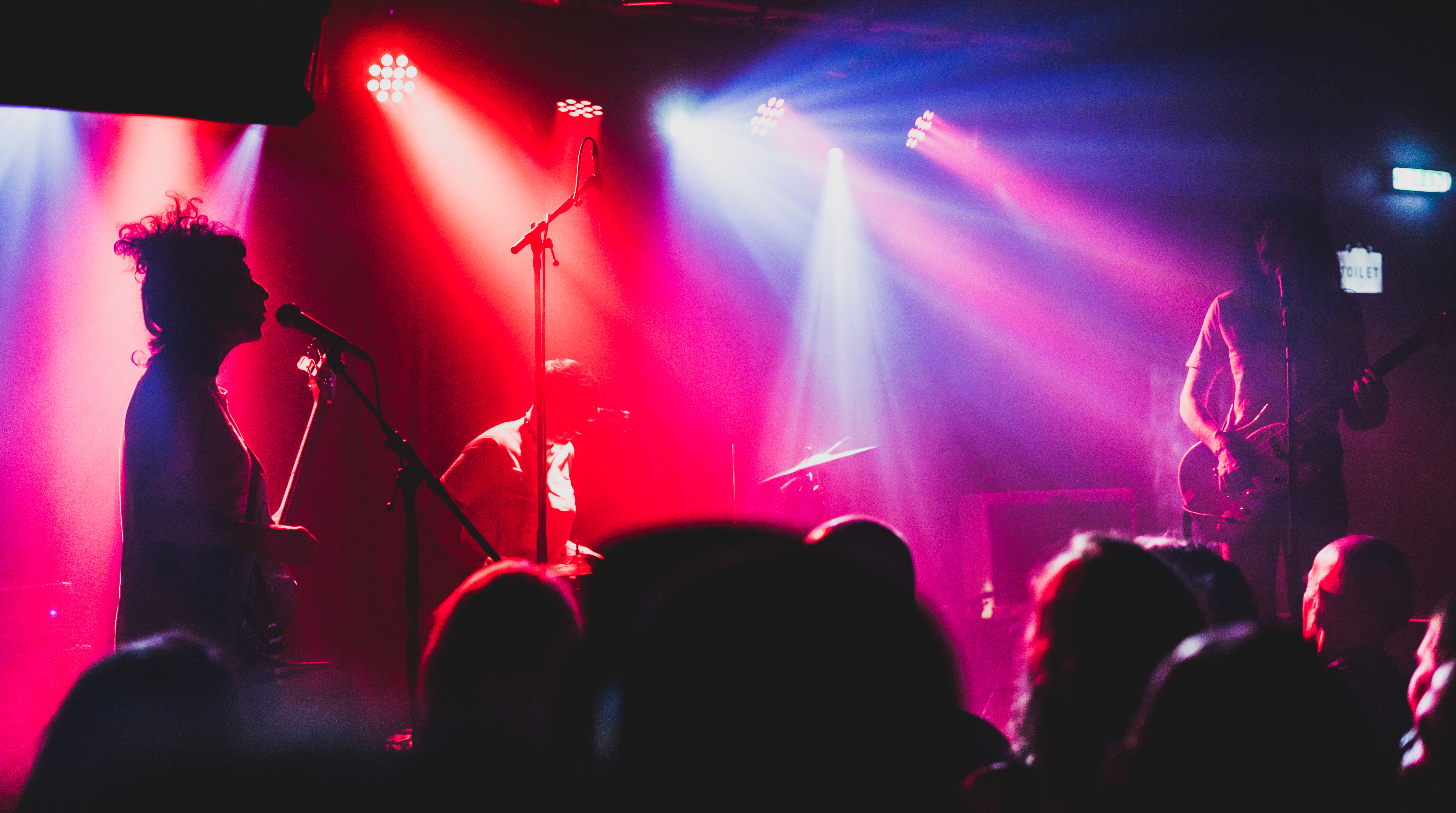 CoathangersHack170517-14